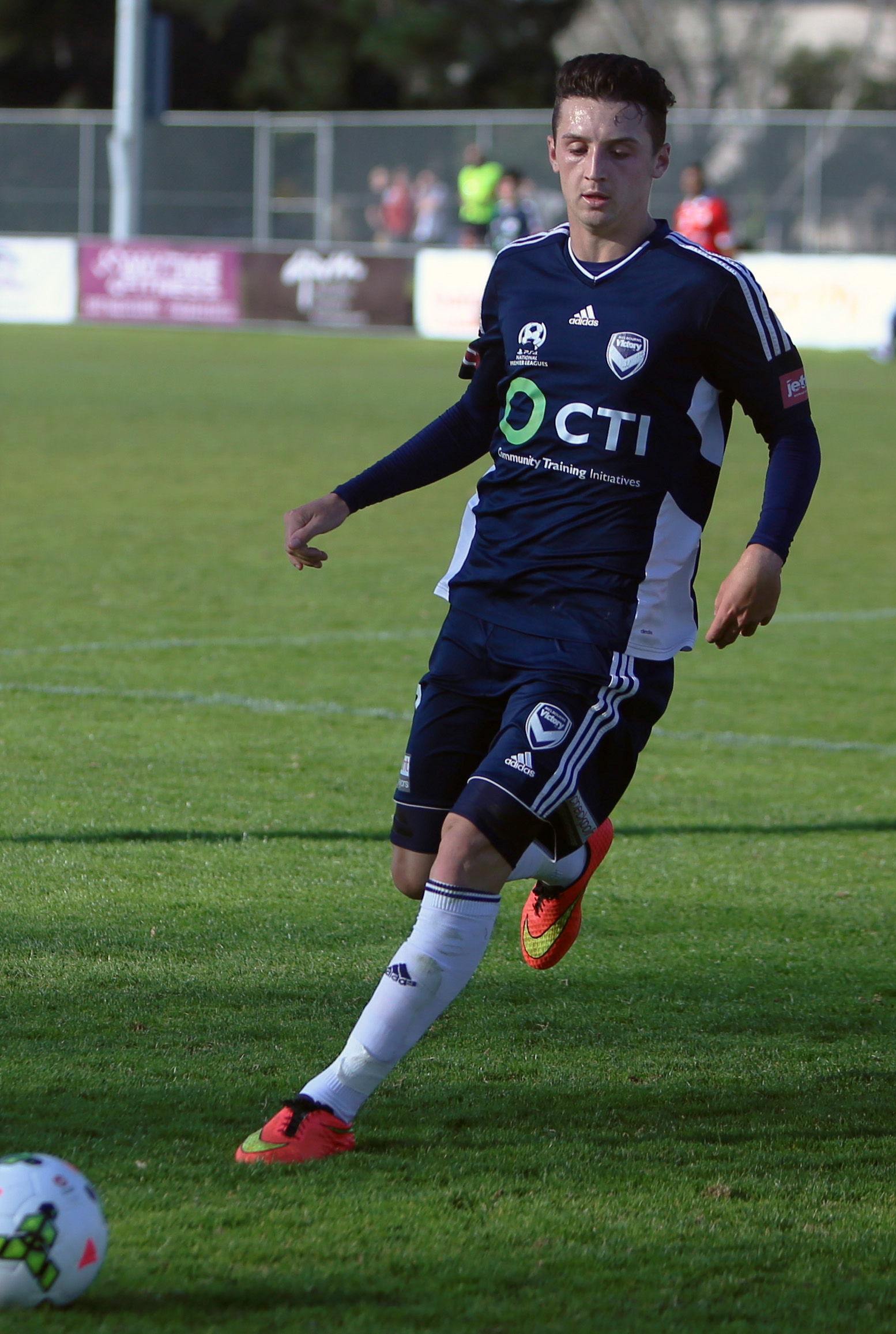 George Howard playing for Melbourne Victory Youth in the 2015 NPLV Promotion Playoff, September 2015